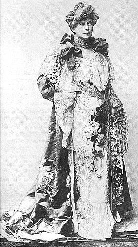 Adele Sandrock as Marguerite Gautier in the stage version of The Lady of the Camellias